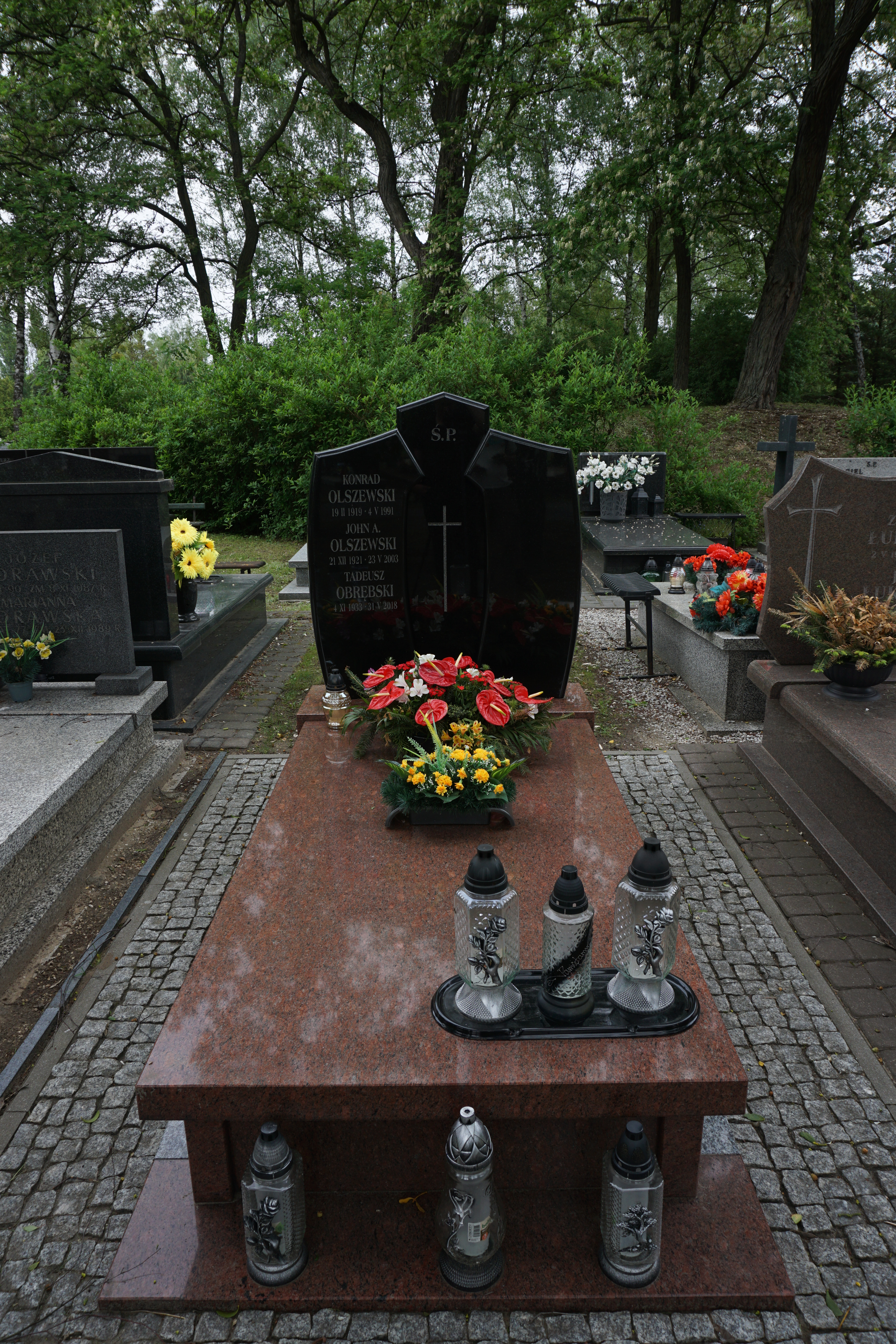 The grave of Tadeusz Obrębski at the North Municipal Cemetery in Warsaw (section E-V-7, row 10, grave 5)